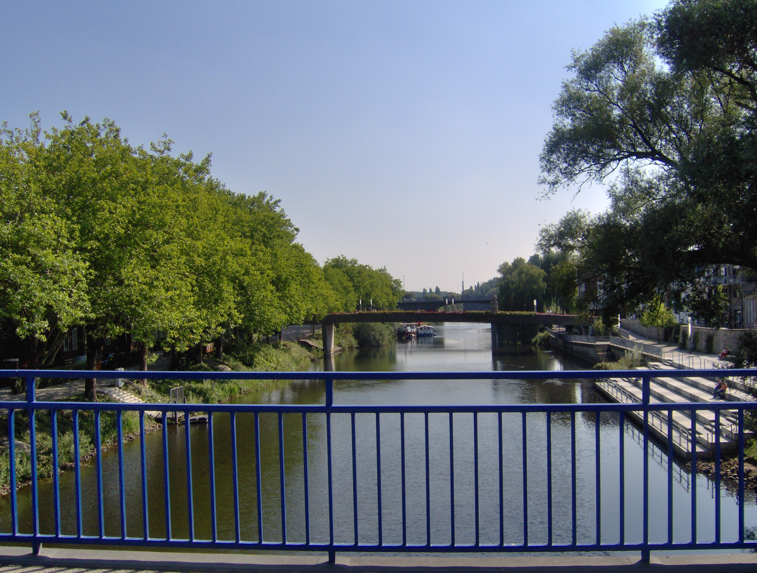 The Ems river in Rheine in North Rhine-Westphalia, Germany. Emsbühne on the right.